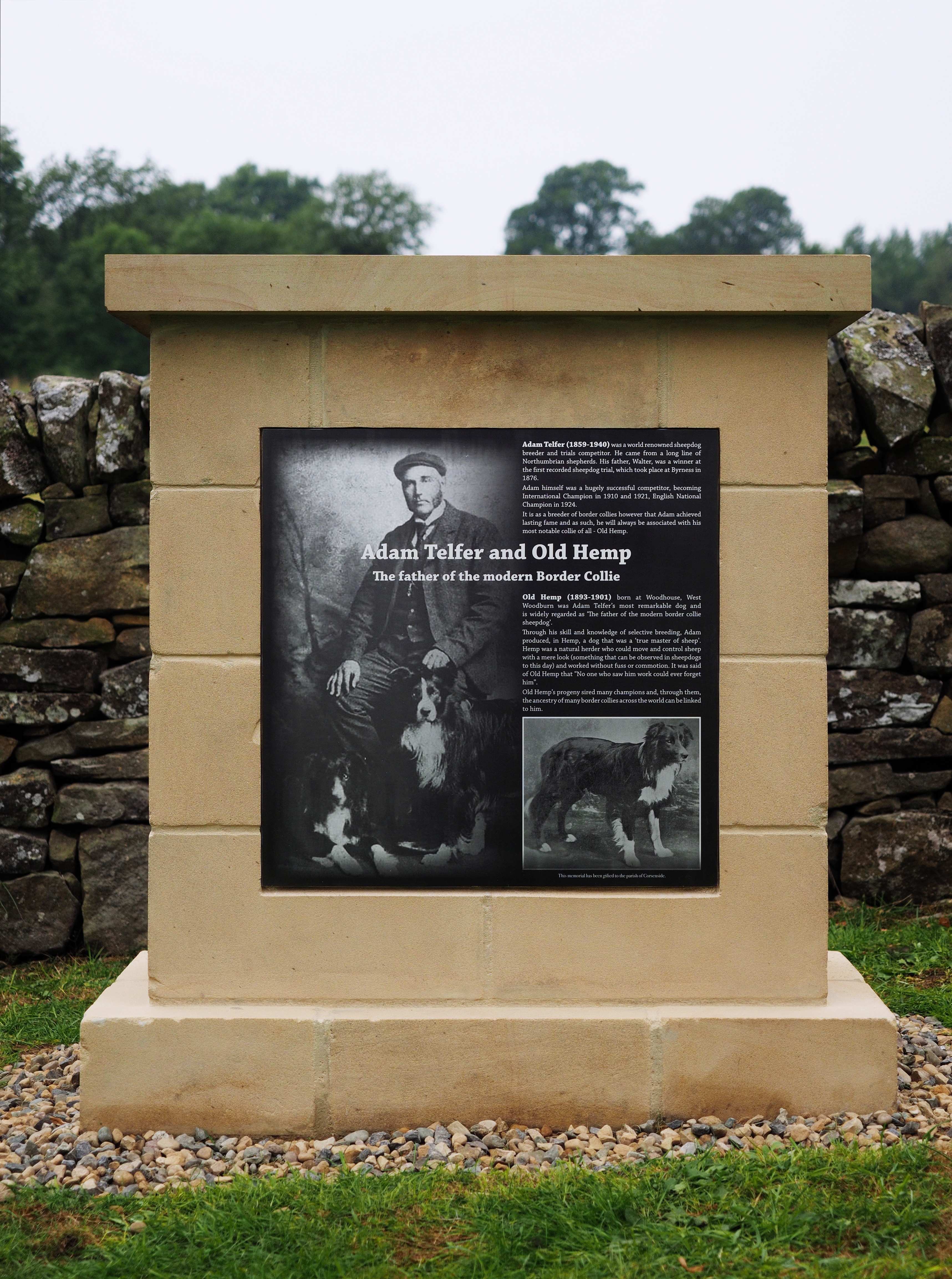 Adam Telfer and Old Hemp Memorial, on the day of unveiling.